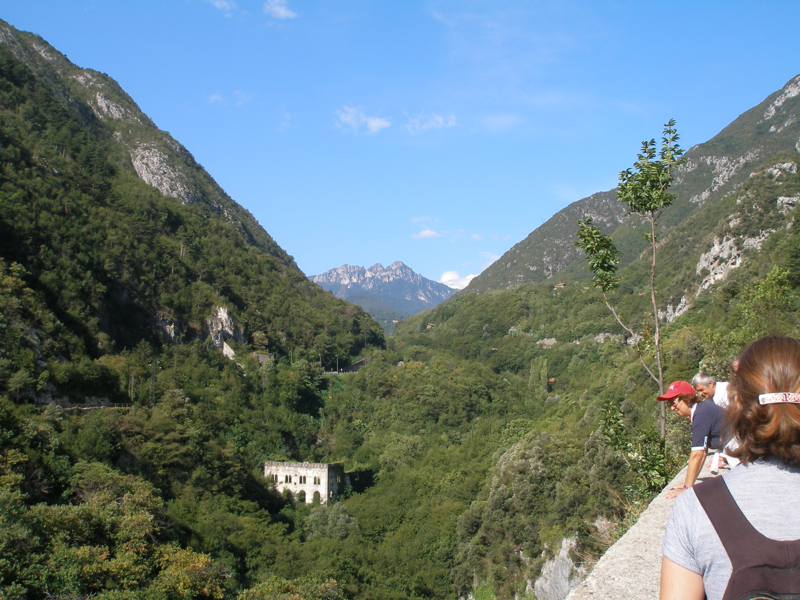 The ruin of the old power station on the Ponale river in the Ledro Valley